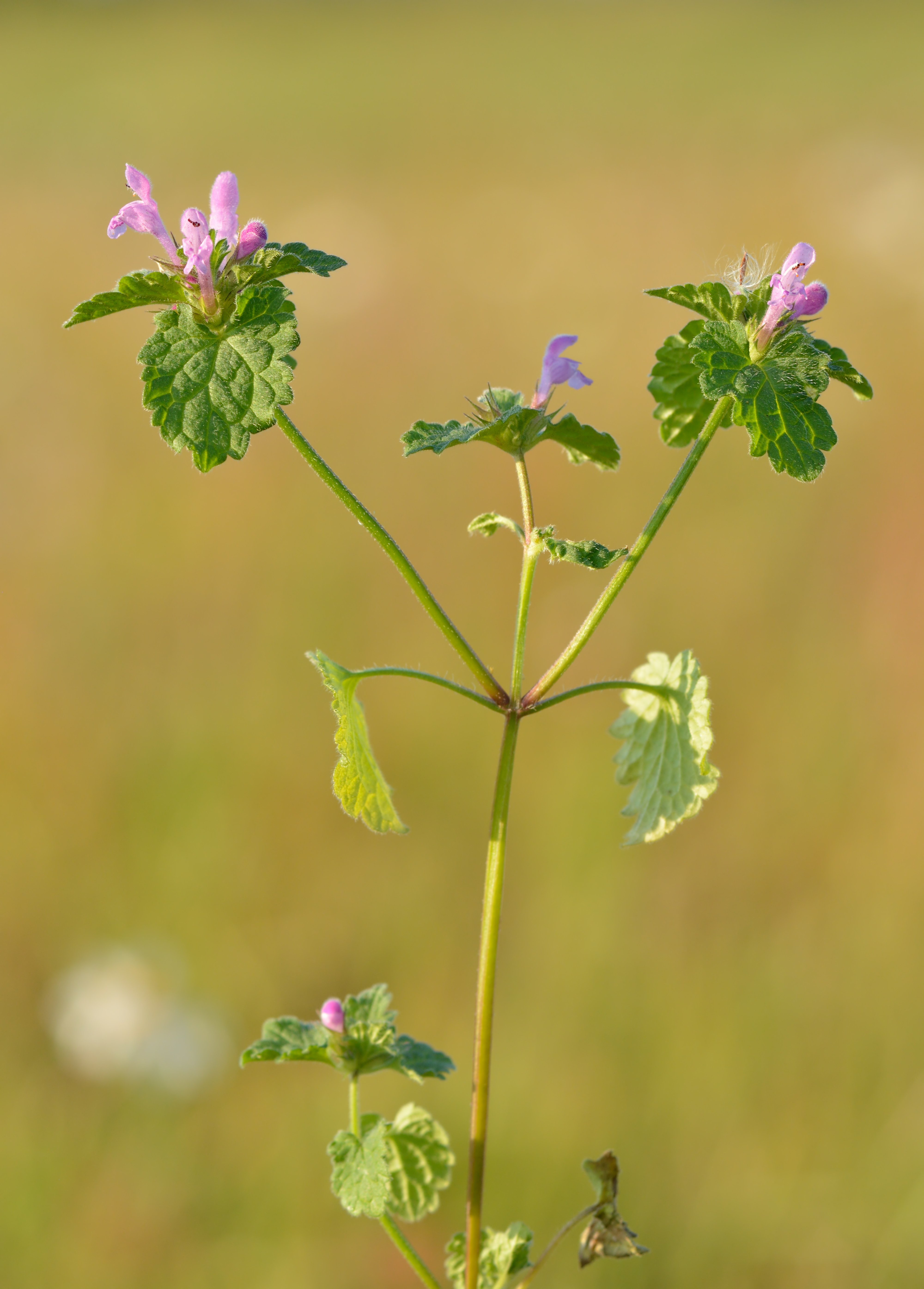 Lamium purpureum - red deadnettle in Keila, Estonia.